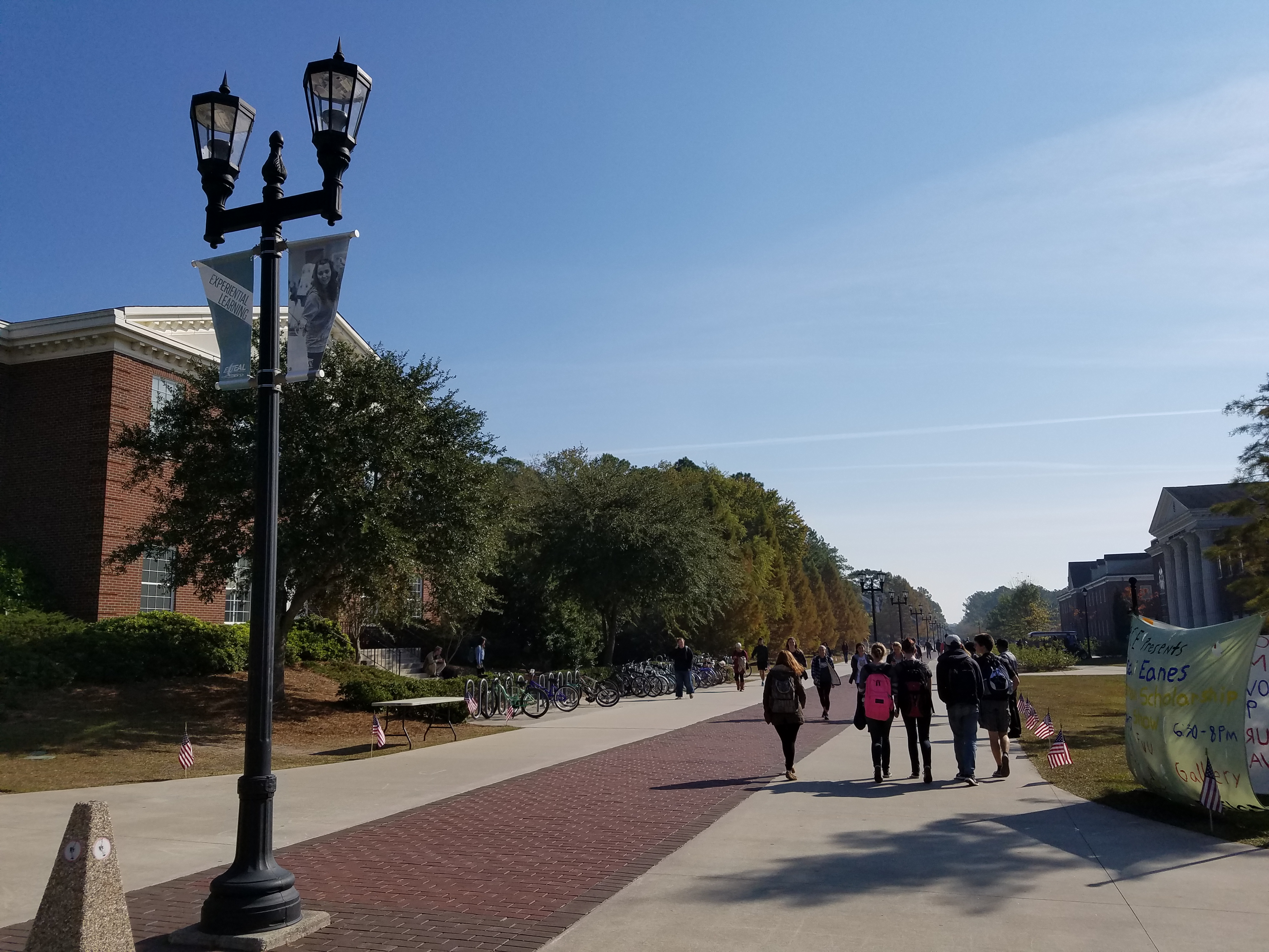 Chancellor's walk on the campus of University of North Carolina Wilmington (UNCW) in Wilmington, North Carolina.